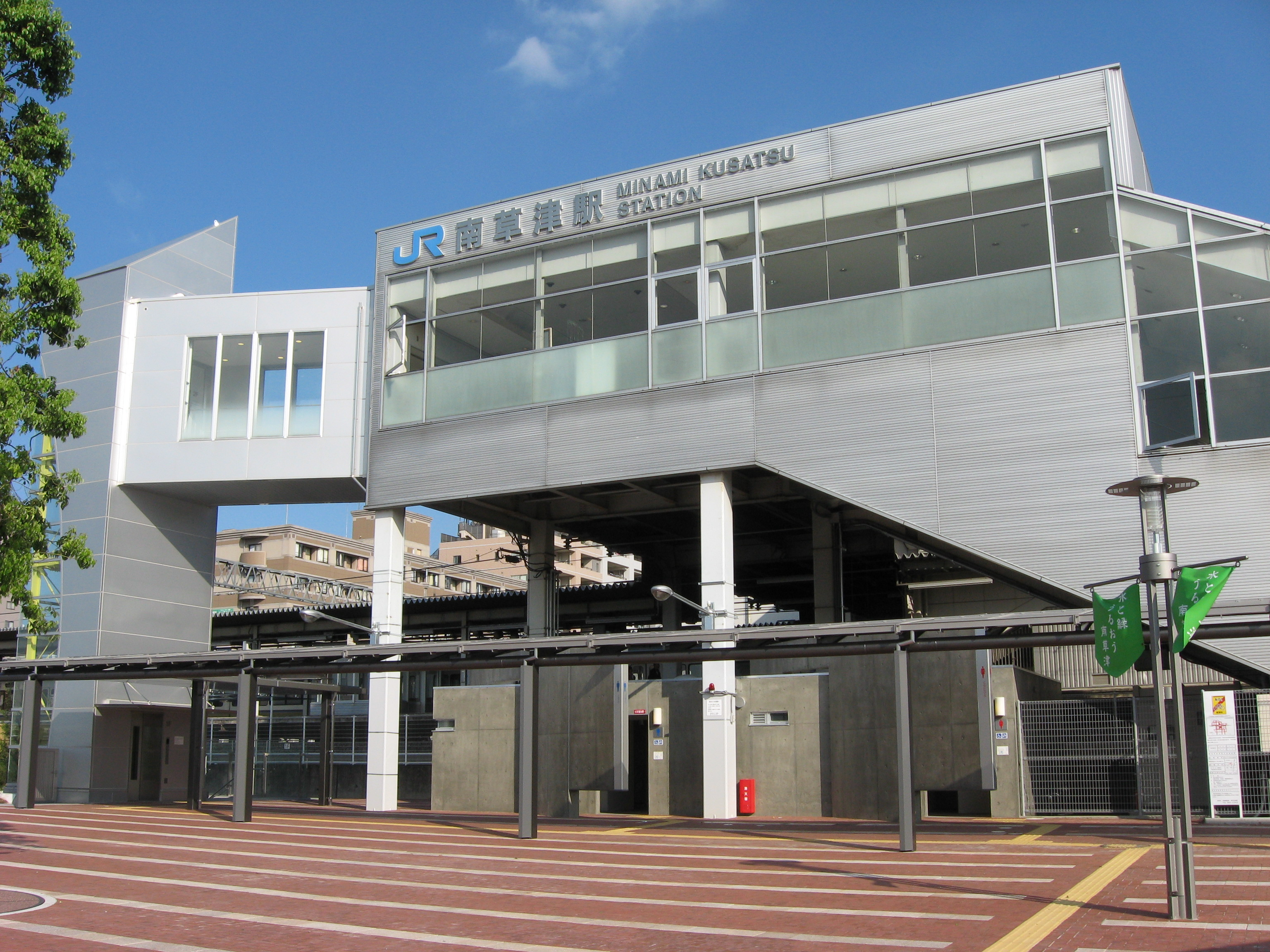 This photograph is JR Minami-Kusatsu station. この写真はJR南草津駅です。